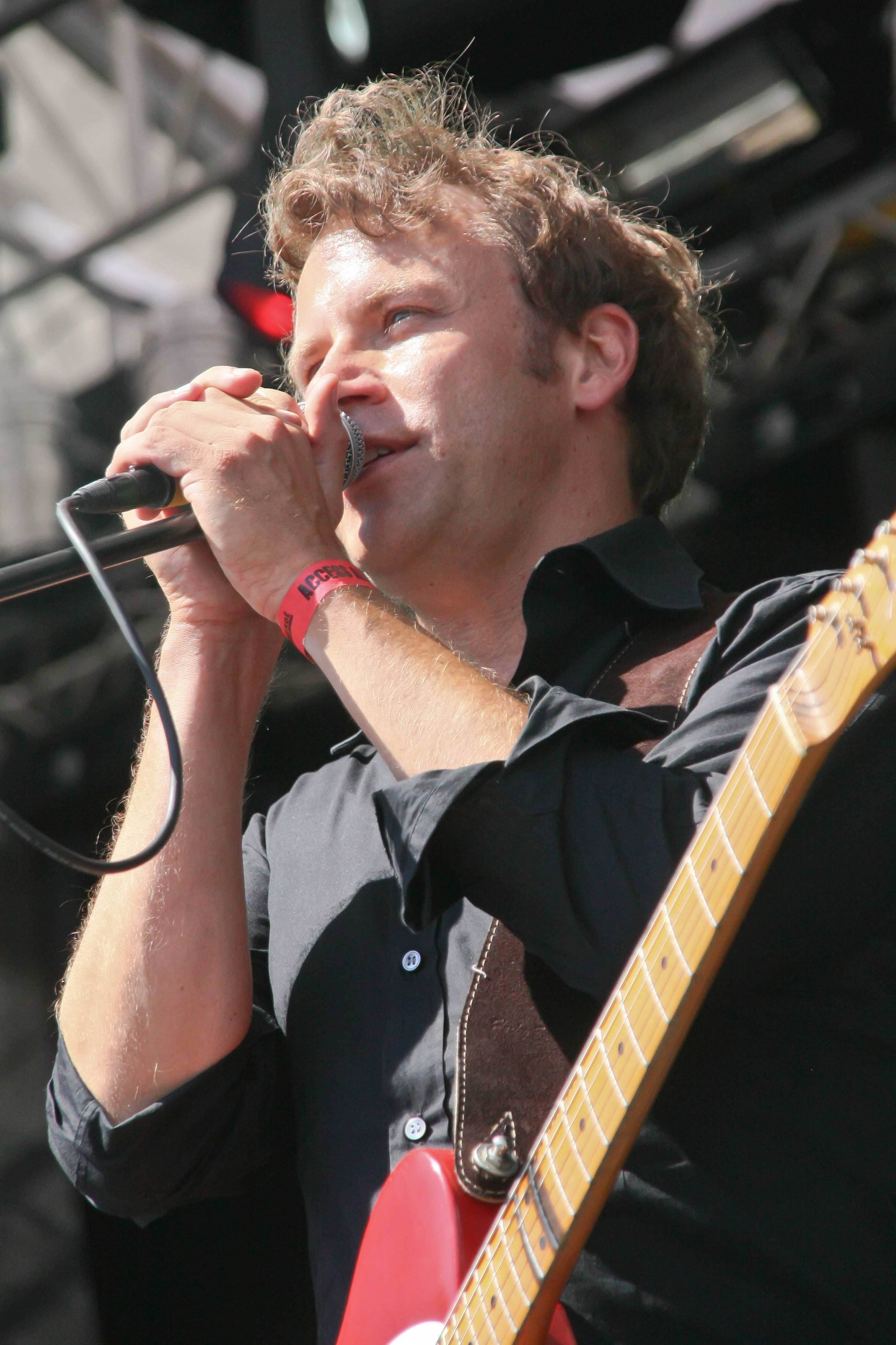 Slut at Sonnenrot Festival, Eching/Germany